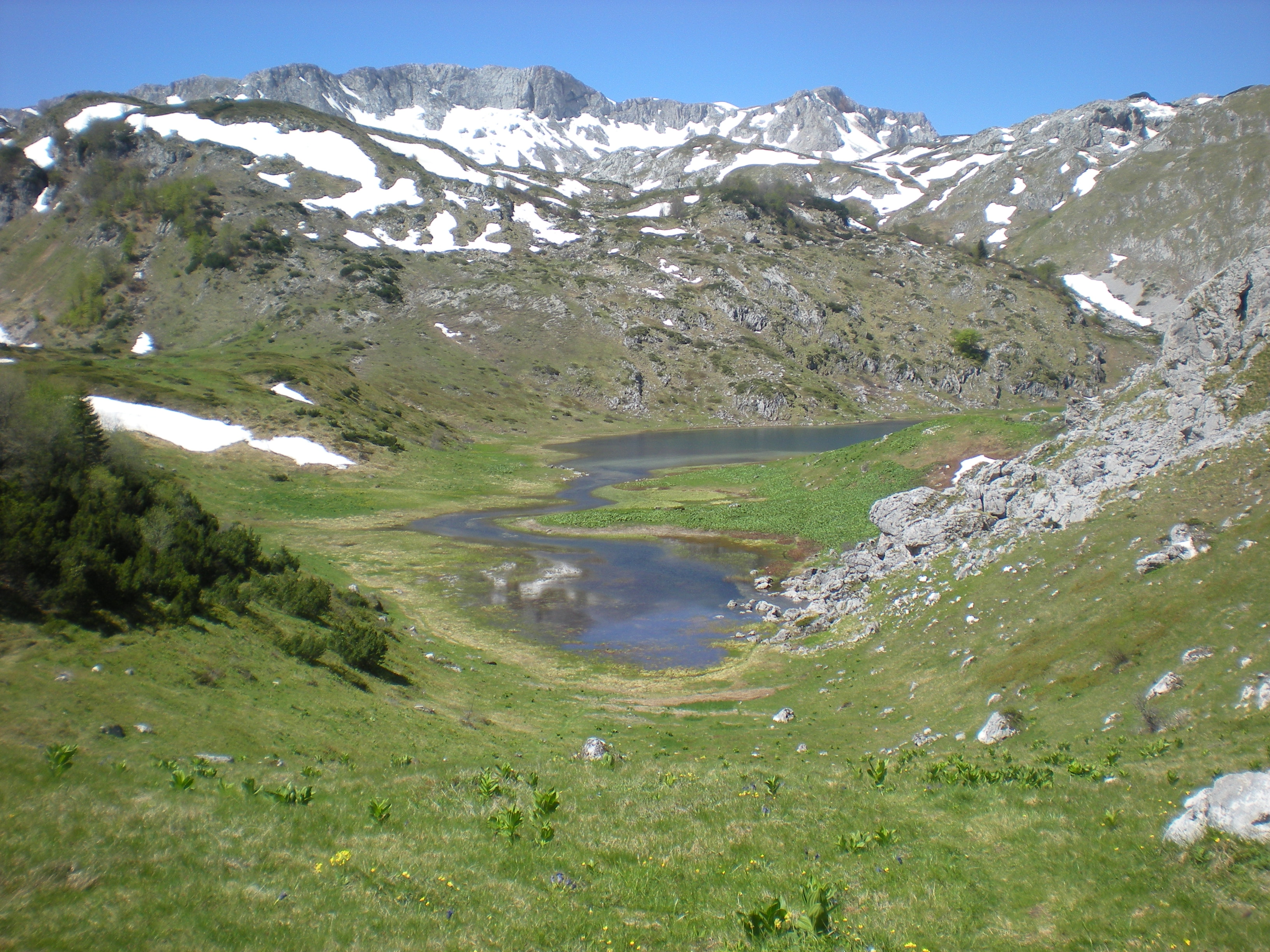 View of Veliko Jezero with Treskavica main ridge